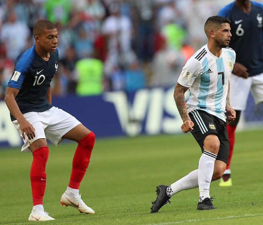 2018 FIFA World Cup Match 50, France v Argentina